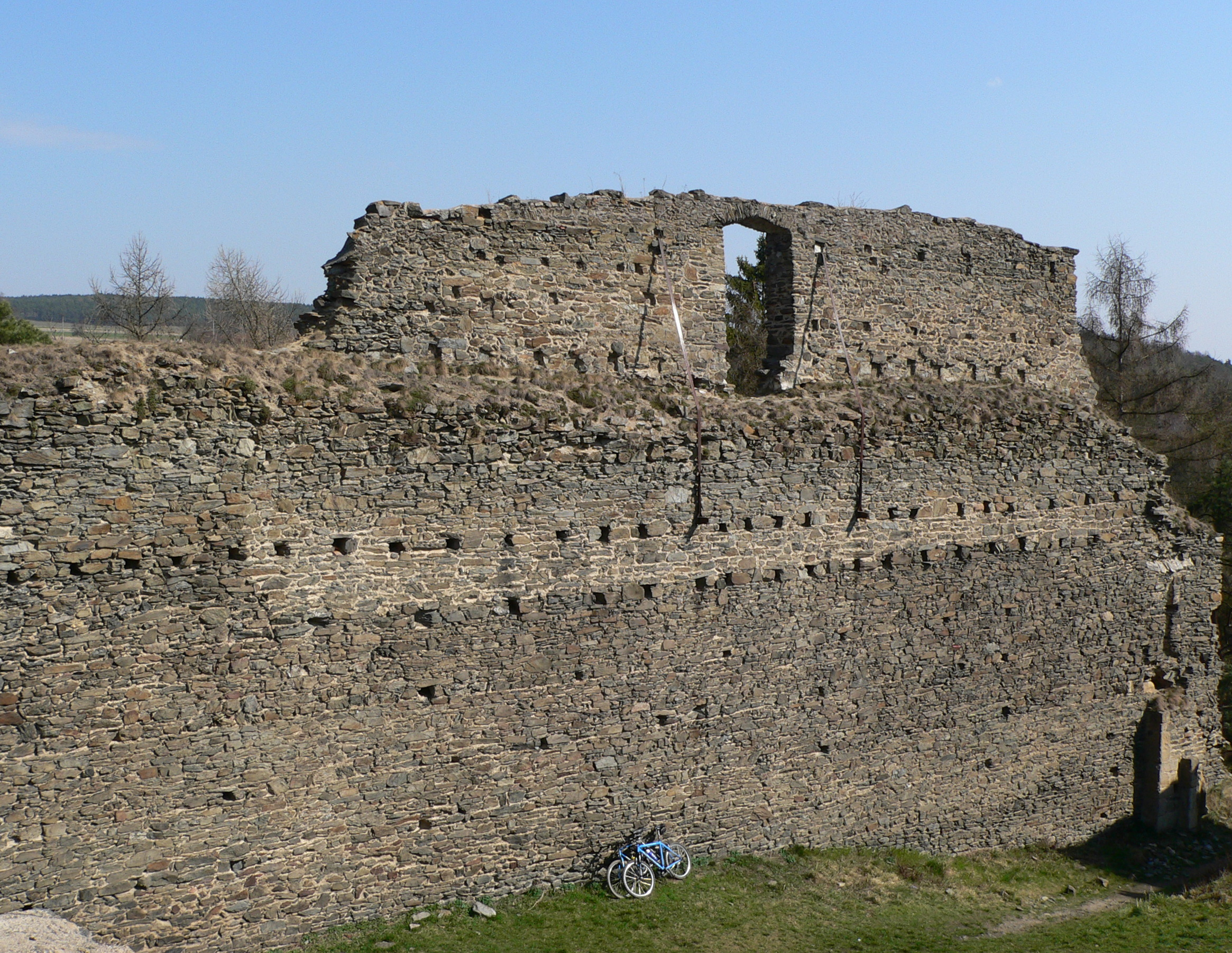 Ruiny hradu Buben / Ruins of Bunen castle